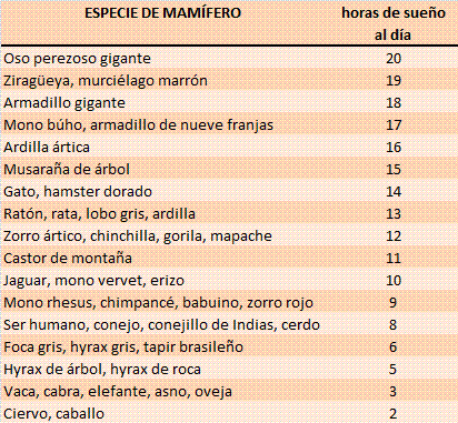 Table that shows different types of animals and the number of hours they sleep.